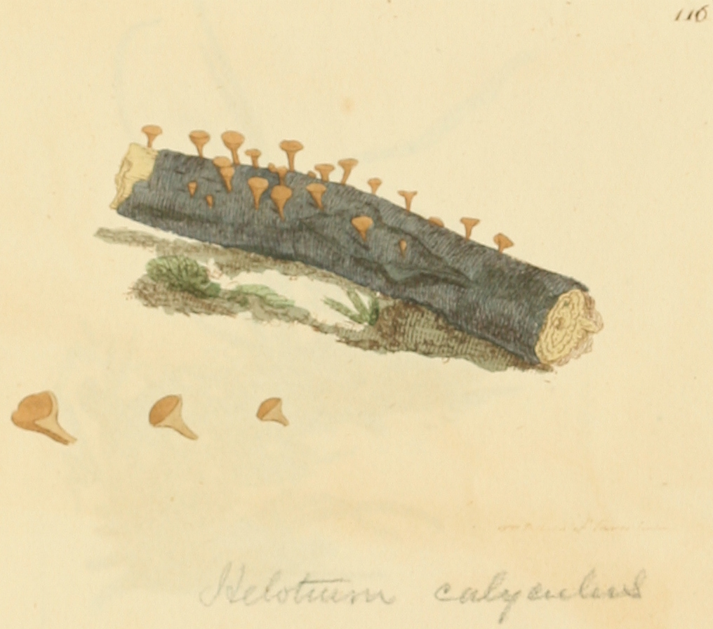 This is a plate from James Sowerby's Coloured Figures of English Fungi or Mushrooms.